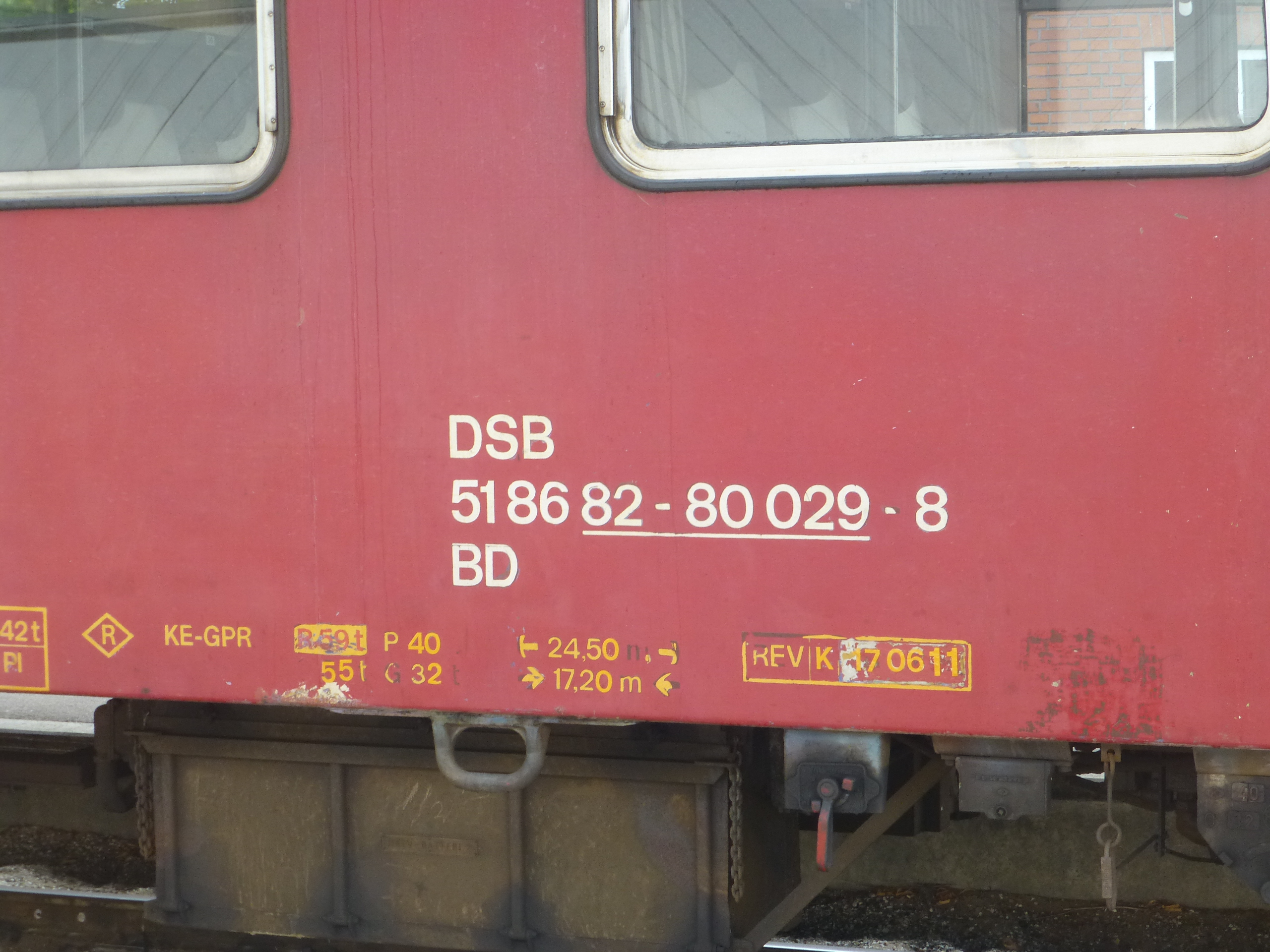 Celebrating of 60 years with GM locomotives in Denmark at Danmarks Jernbanemuseum. Litra of the railway coach DSB BD 51 86 82-80 029-8 from 1970 belonging to MY Veterantog.